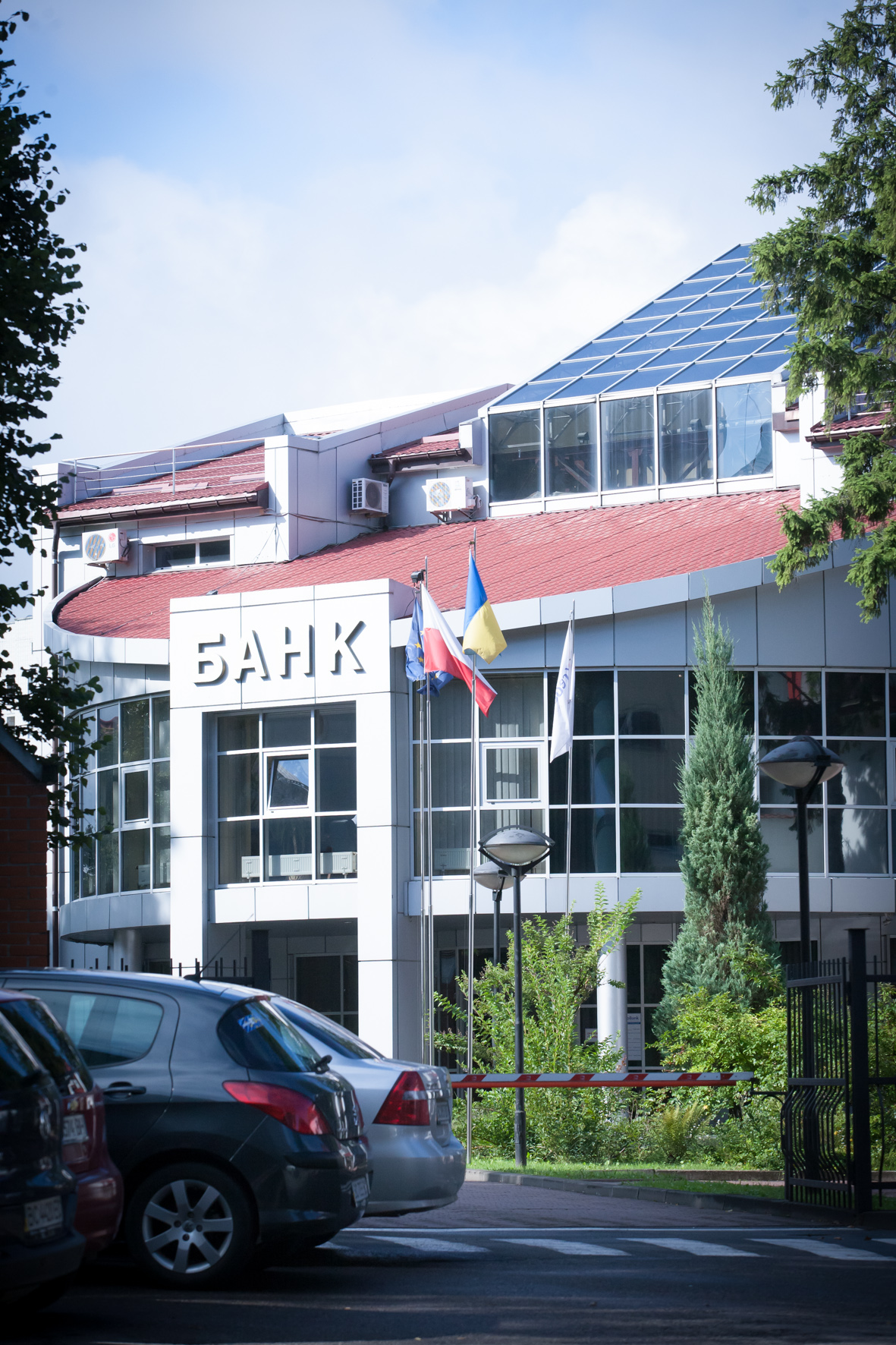 KredoBank head office in Lviv